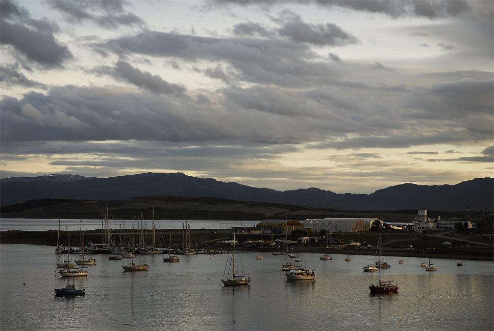 Ushuaia in summer, at 10 pm Own work